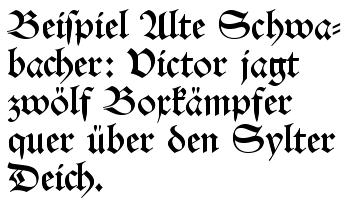 Fraktur Typeface sample: "Alte Schwabacher" The text is "Beispiel Alte Schwabacher: Victor jagt zwölf Boxkämpfer quer über den Sylter Deich", which translates to "Example Old Schwabacher: Victor chases twelve boxers across the dyke of Sylt" (Sylt is a German island).